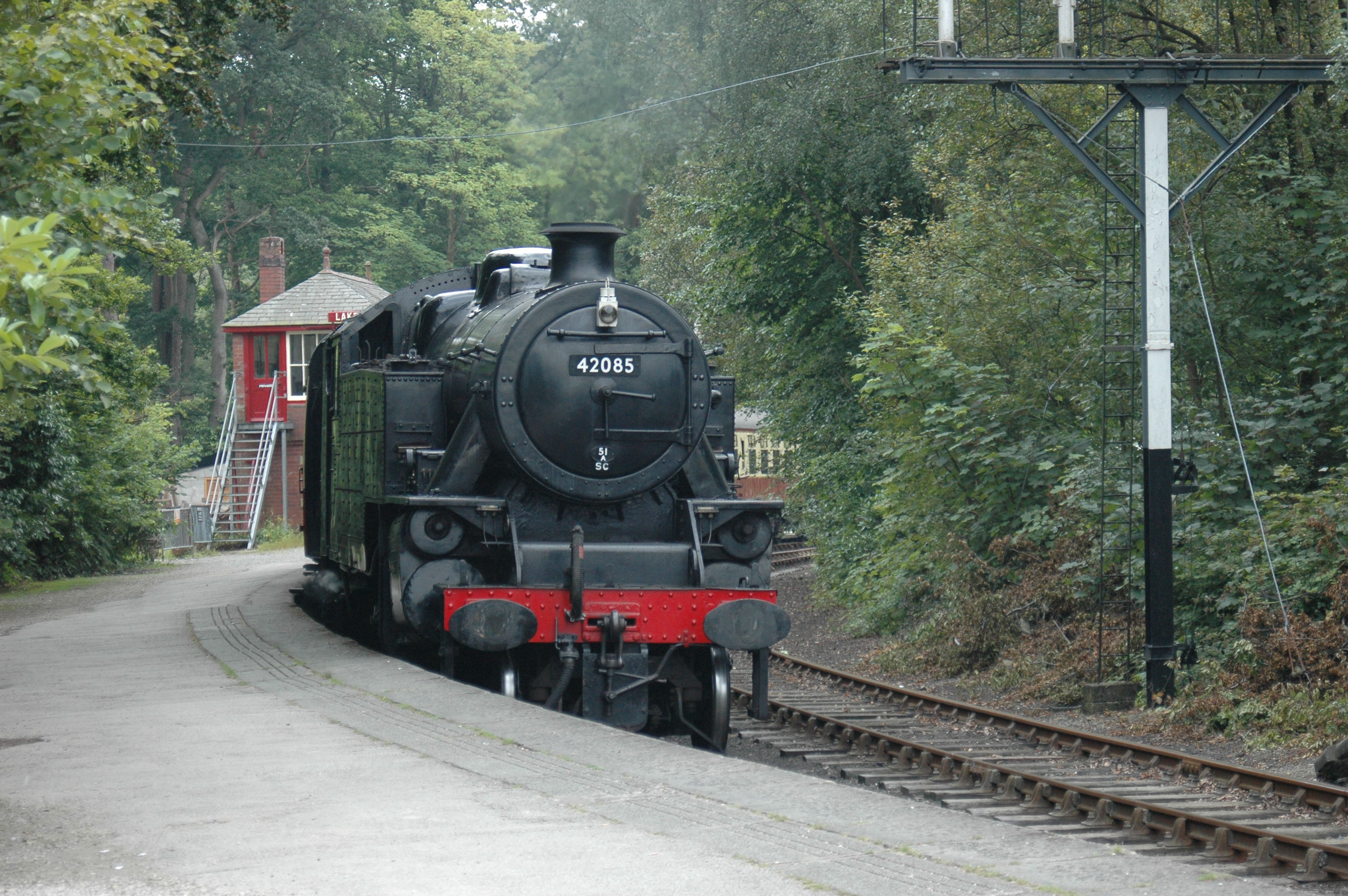 Lakeside & Haverthwaite Steam Railway